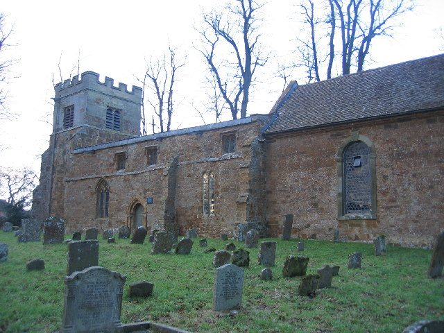 All Saints' parish church, Chadshunt, Warwickshire, seen from the southeast. The church is no longer regularly used for services, but it remains consecrated and is cared for by the Churches Conservation Trust.